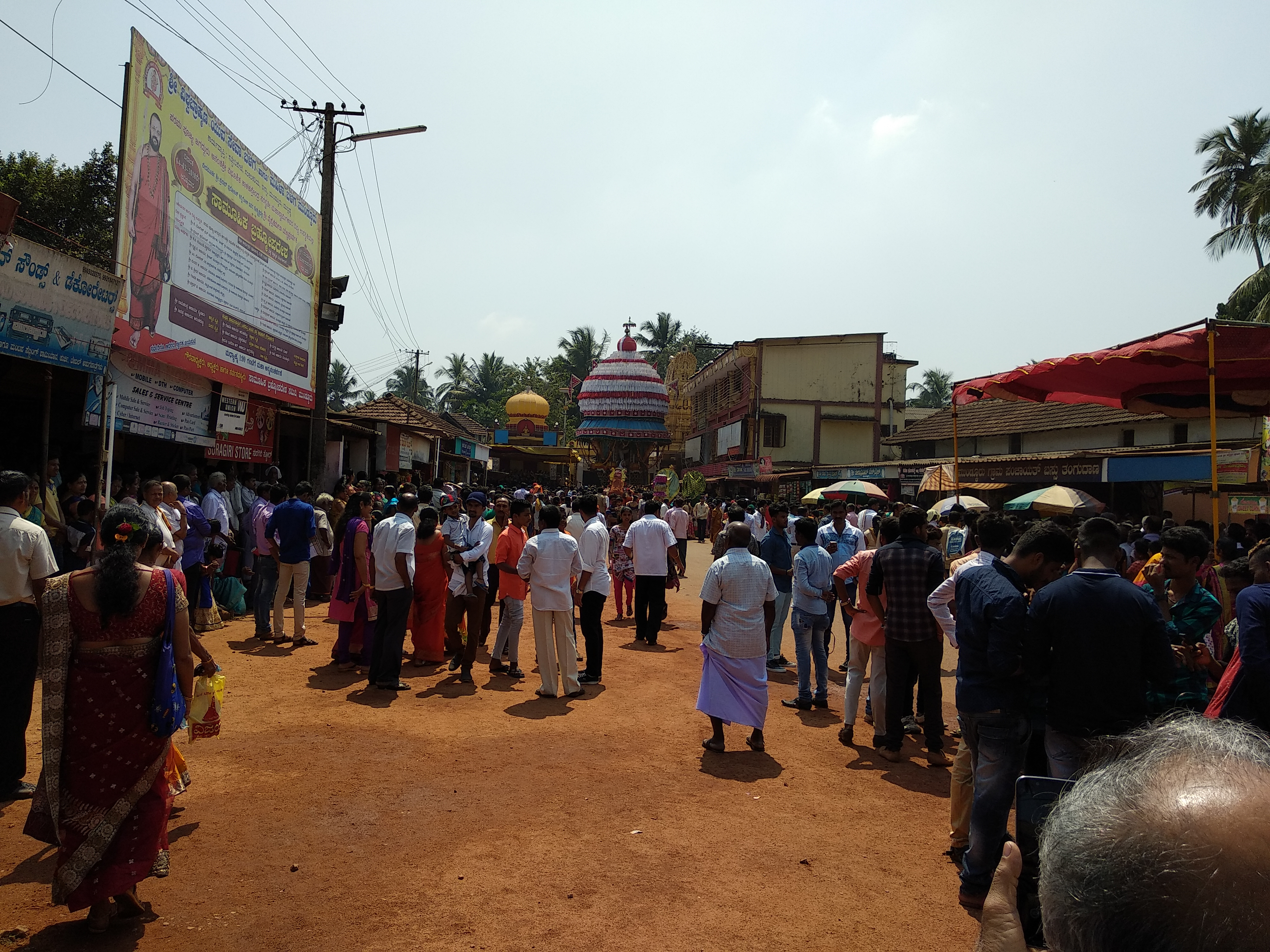 Mundkur Village, Karkal Taluk Udupi district, Karnataka India ಕನ್ನಡ: ಮುಂಡ್ಕೂರು ಗ್ರಾಮ, ಕಾರ್ಕಳ ತಾಲೂಕು ಉಡುಪಿ ಜಿಲ್ಲೆ, ಕರ್ನಾಟಕ